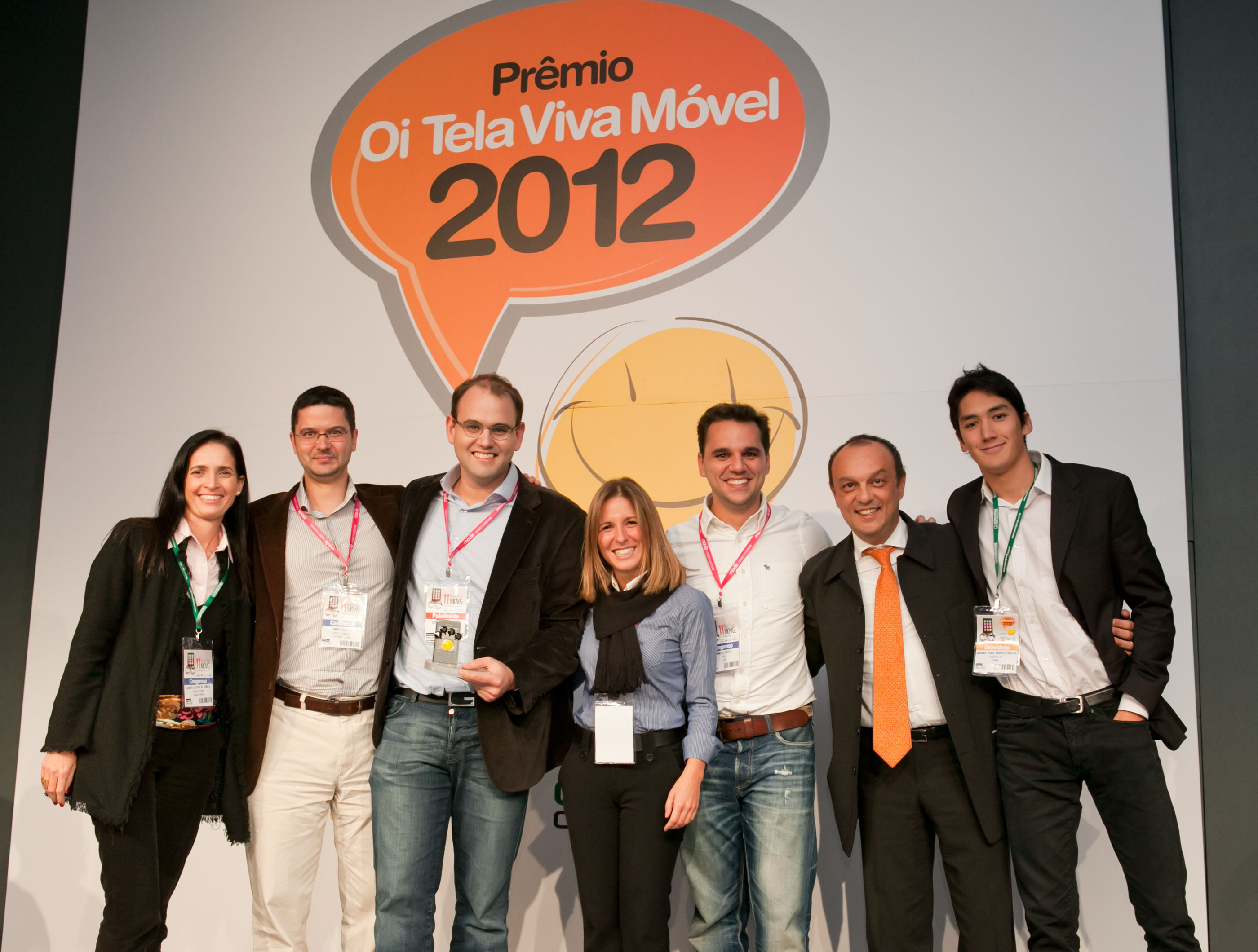 Team receiving the TVM 2012 award